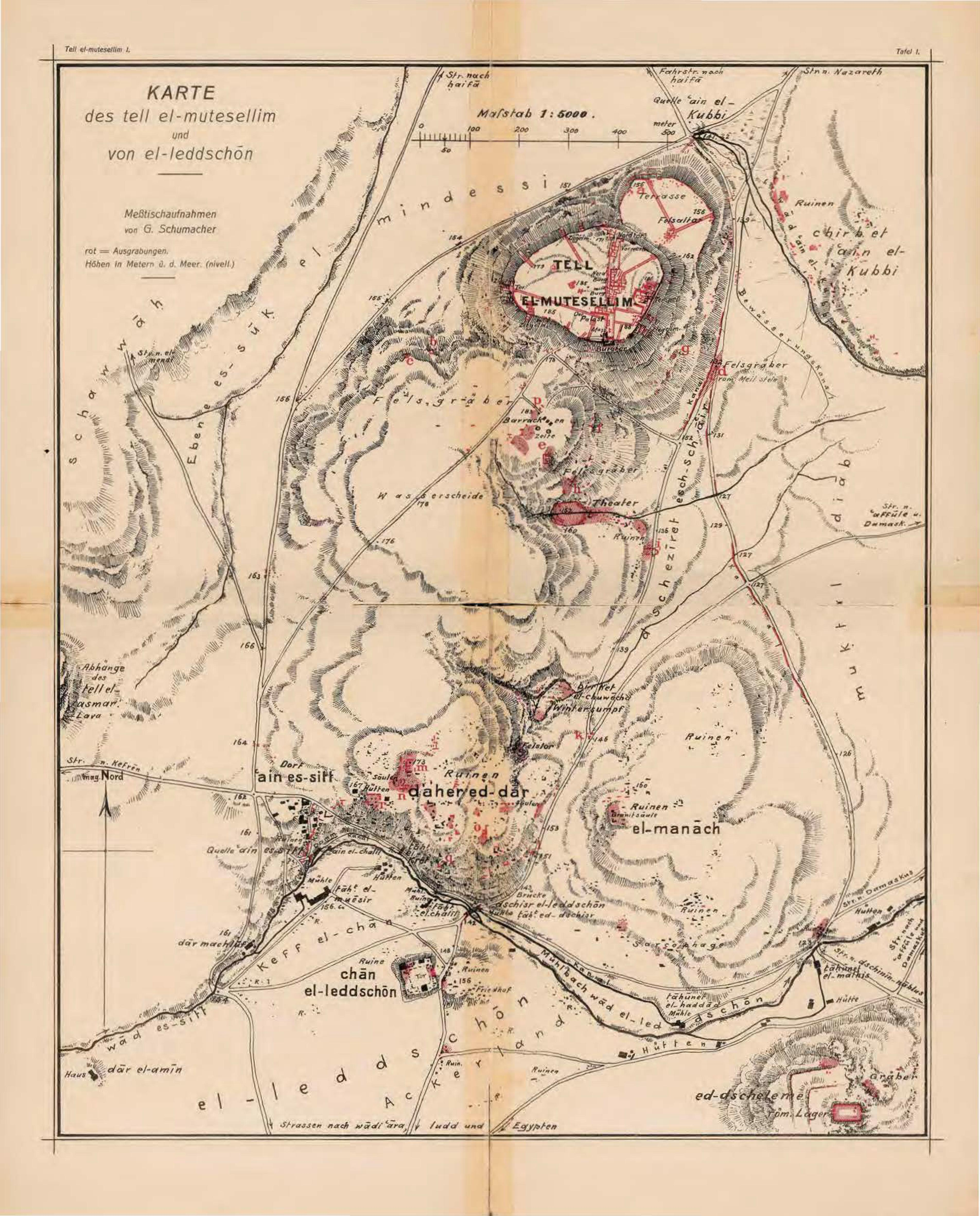 A map of Tell el-Mutesellim (Tel Megiddo) and el-Lajjun, indicating Gottlieb Schumacher's survey and excavations at 1903-1905.